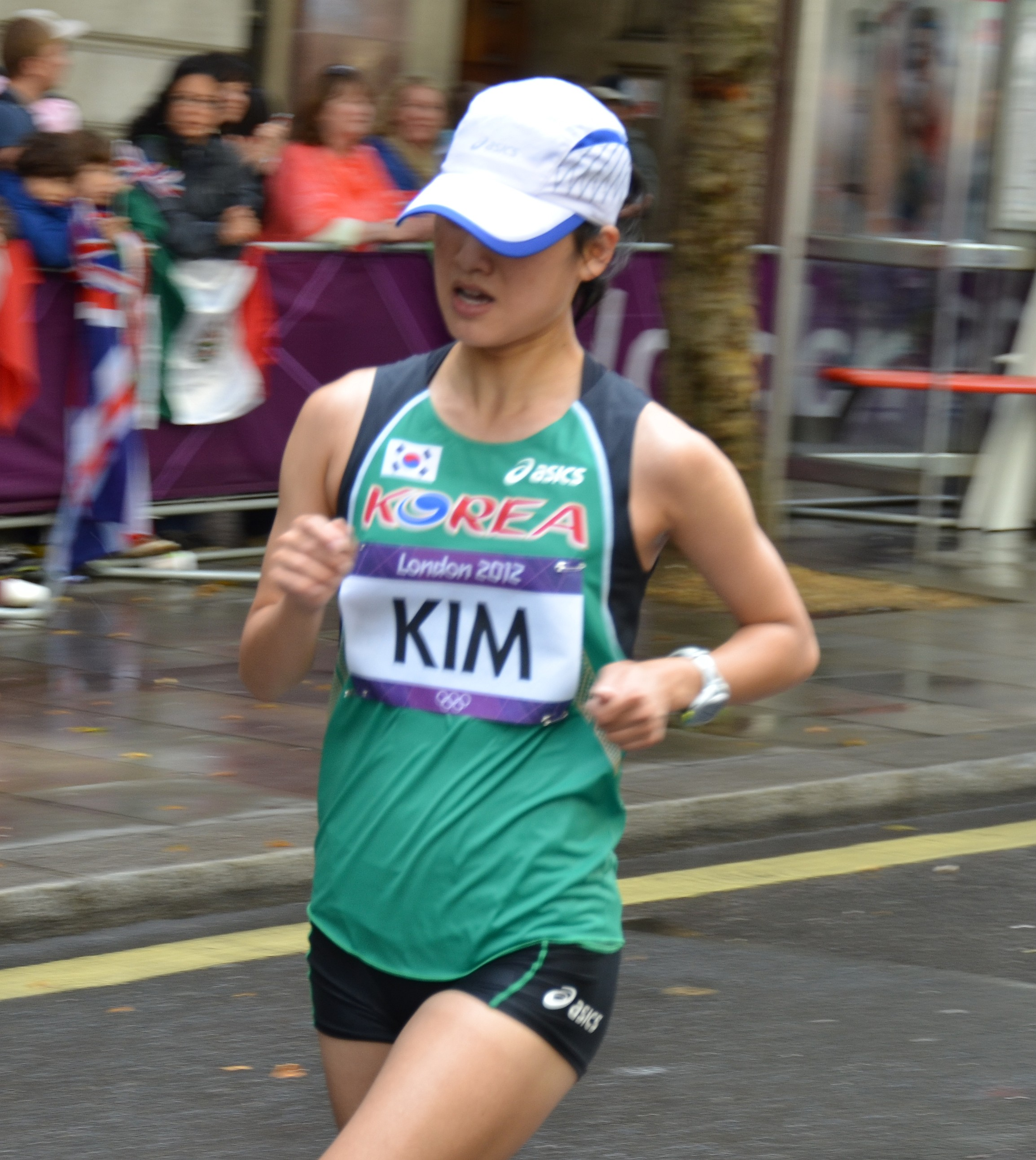 Kim Sung-Eun (Korea) in the marathon (w) at the Olympic Games 2012